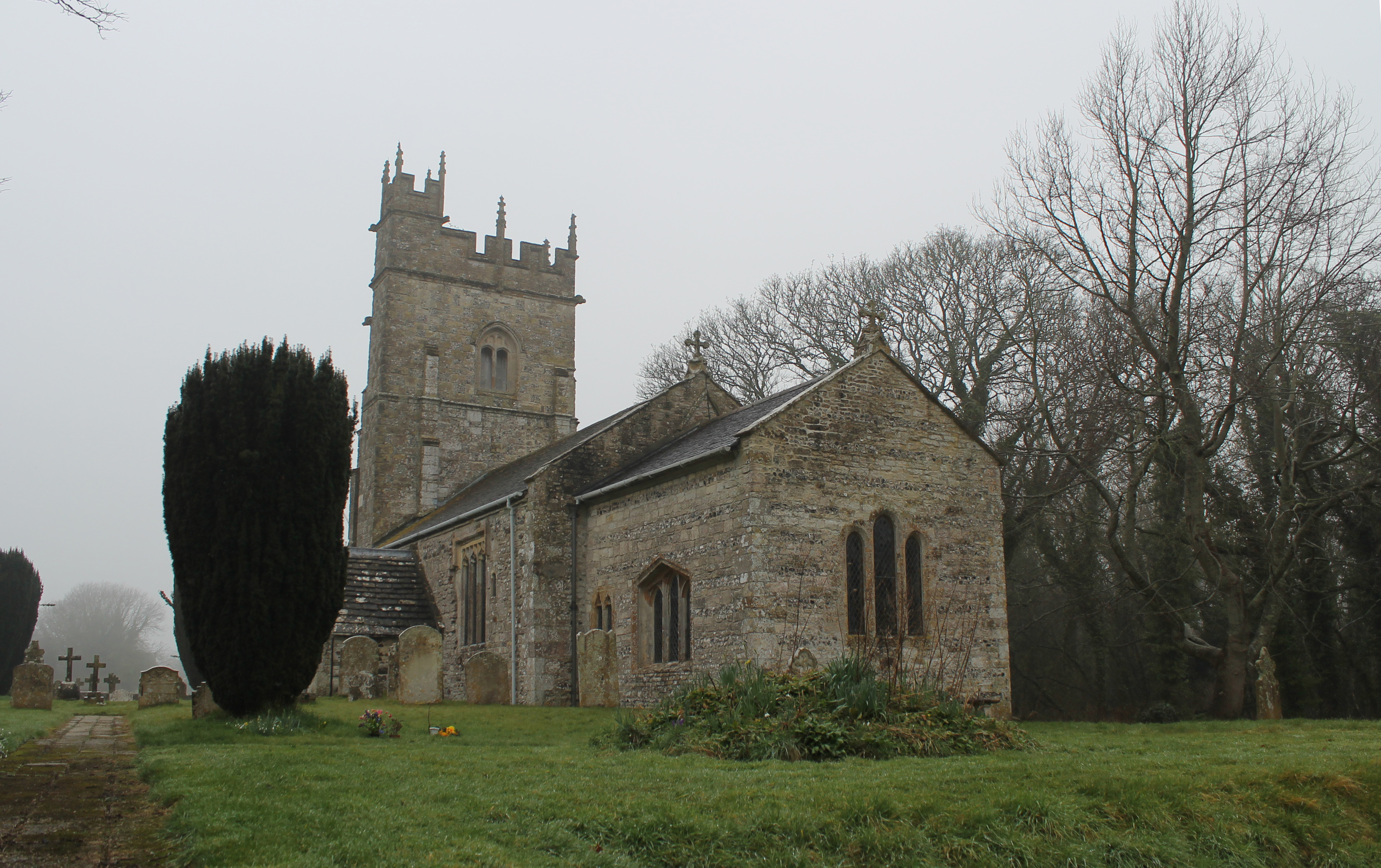 The church of St Lawrence, Affpuddle, Dorset.